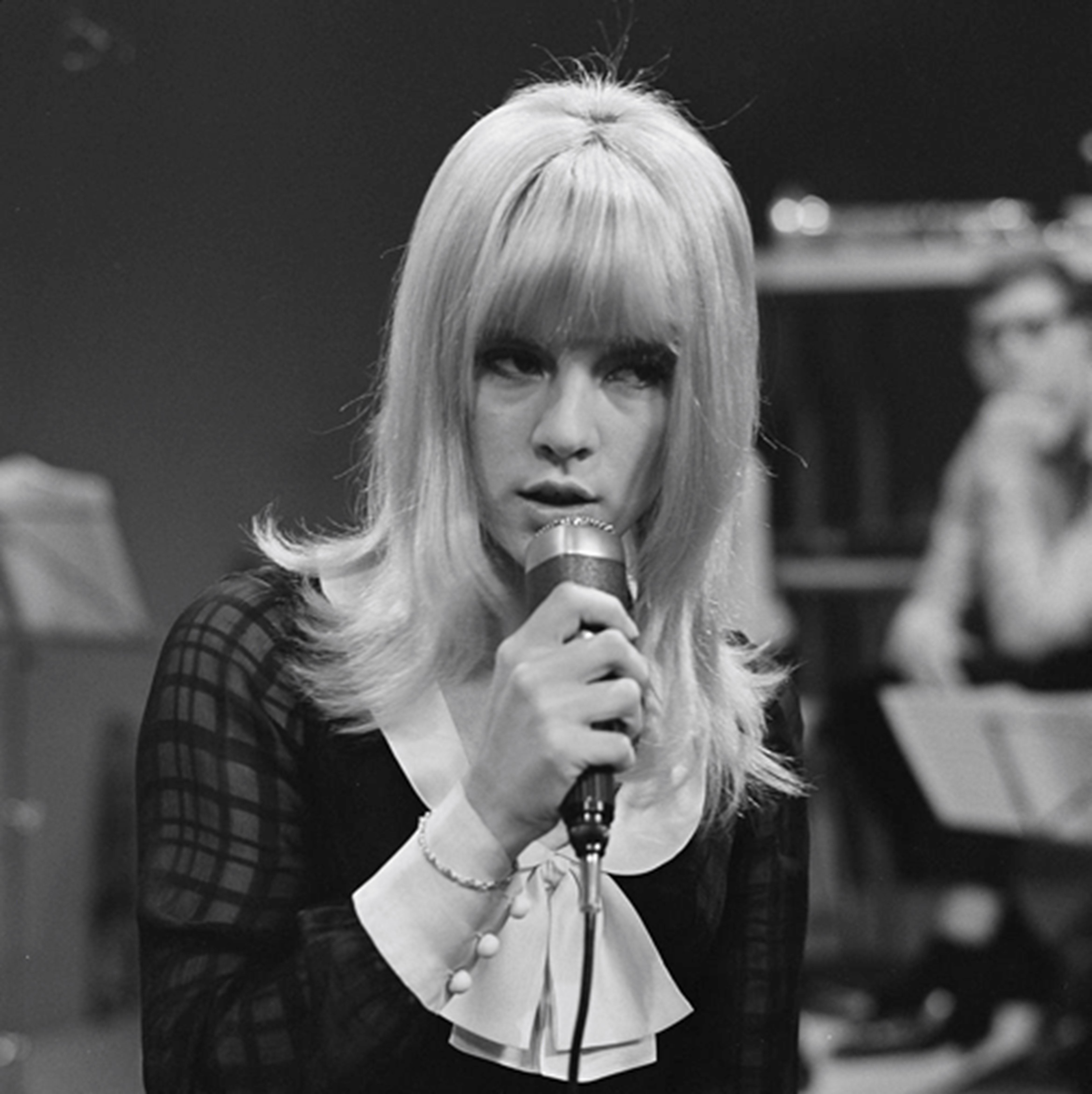 Sylvie Vartan performing the songs "Le Chanson", "Ik heb op jou gewacht" and "La plus bele pur aller danser" in Dutch TV programme Fanclub, 10 Dec. 1966